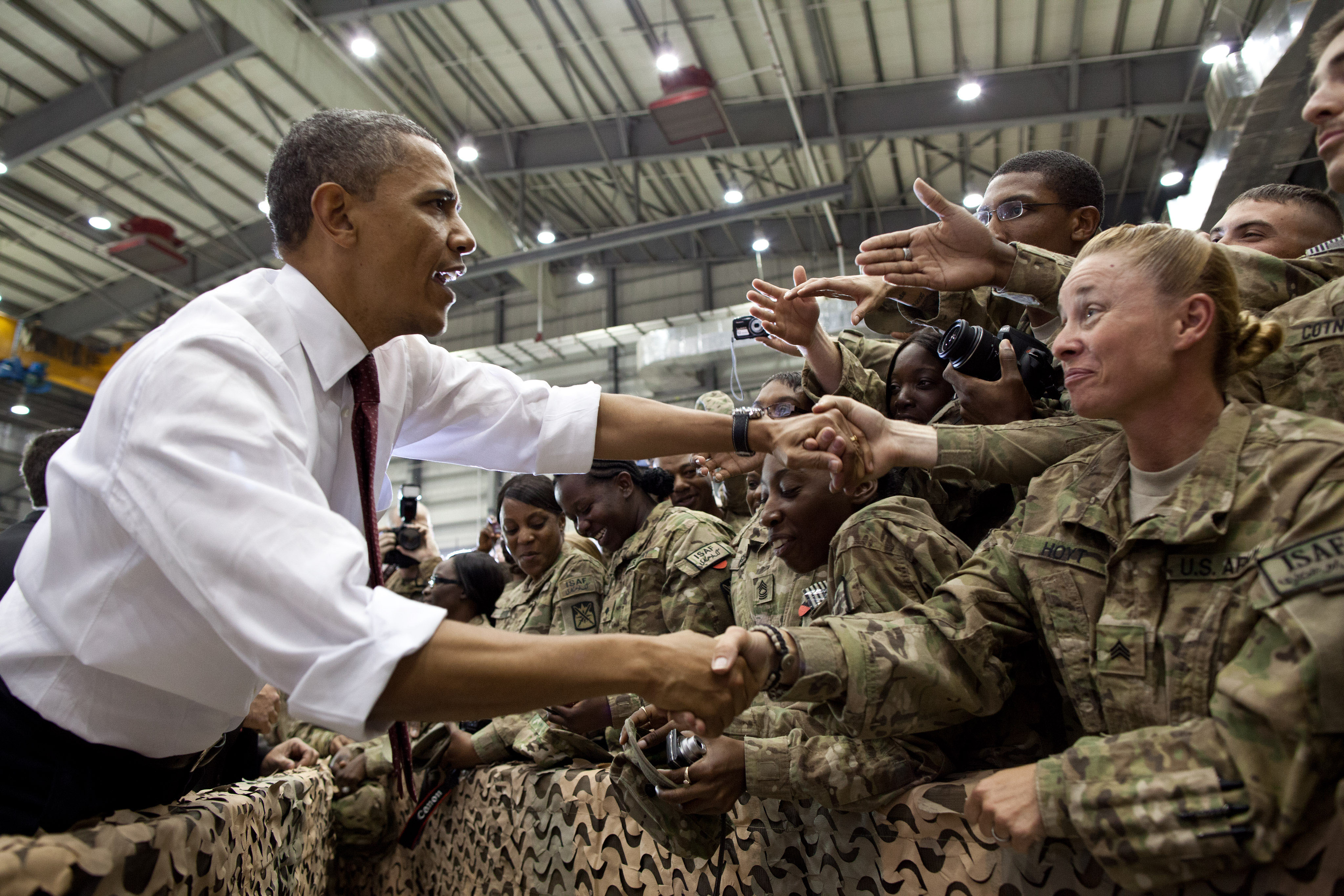 United States President Barack Obama greets U.S. troops at Bagram Airfield in Afghanistan on 2 May 2012.